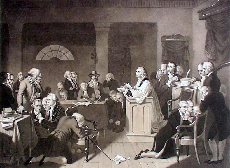 The First Prayer in Congress September 7th, 1774 by Jacob Duché in Carpenters Hall, Philadelphia. Painted 1848